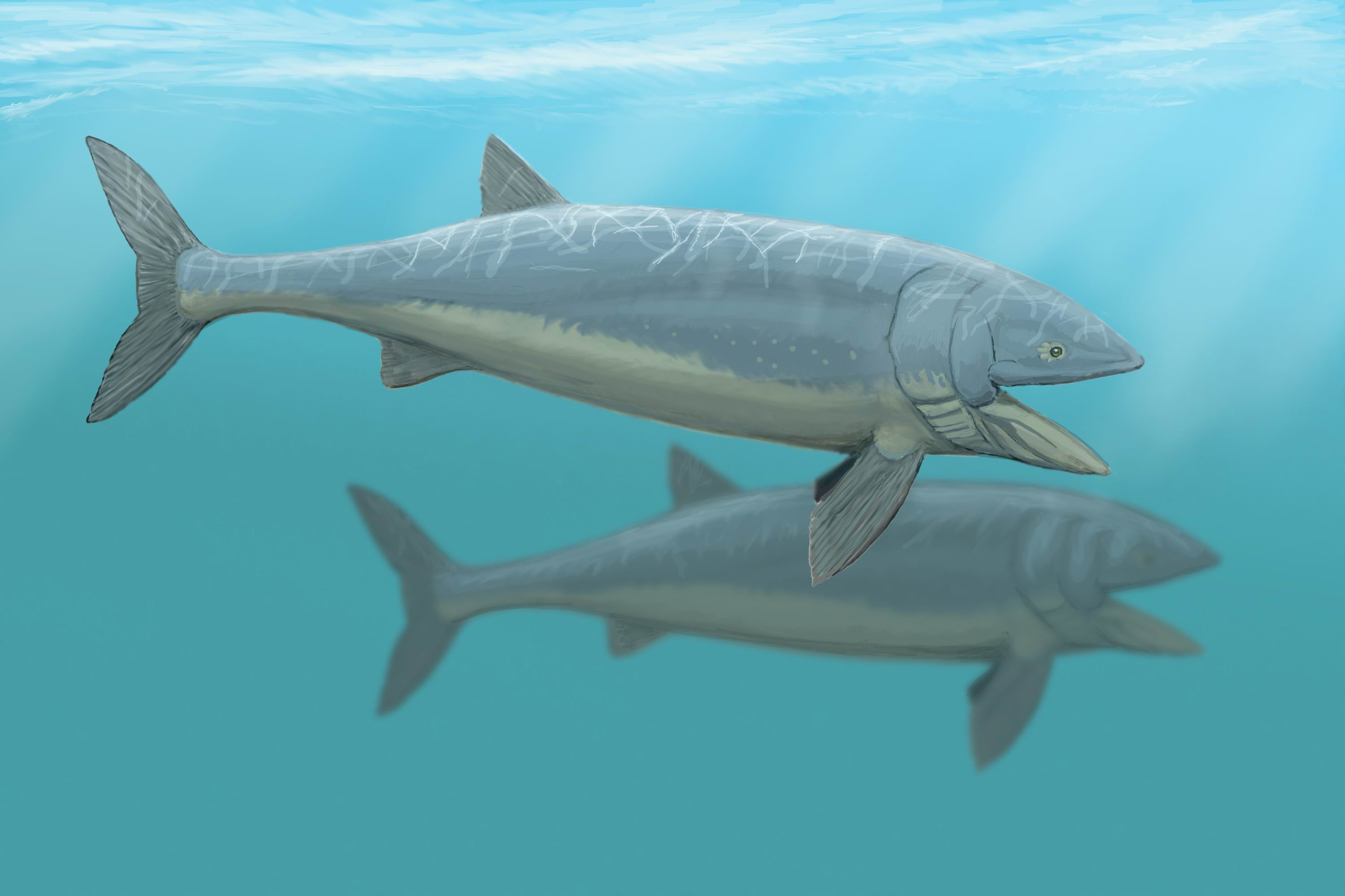 New, updated version of Leedsichtys problematicus - giant Middle Jurassic Pachycormid.